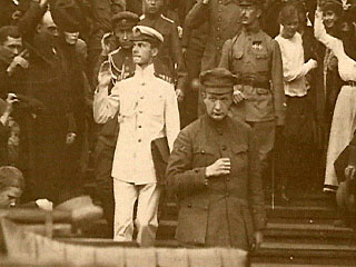 Kerensky